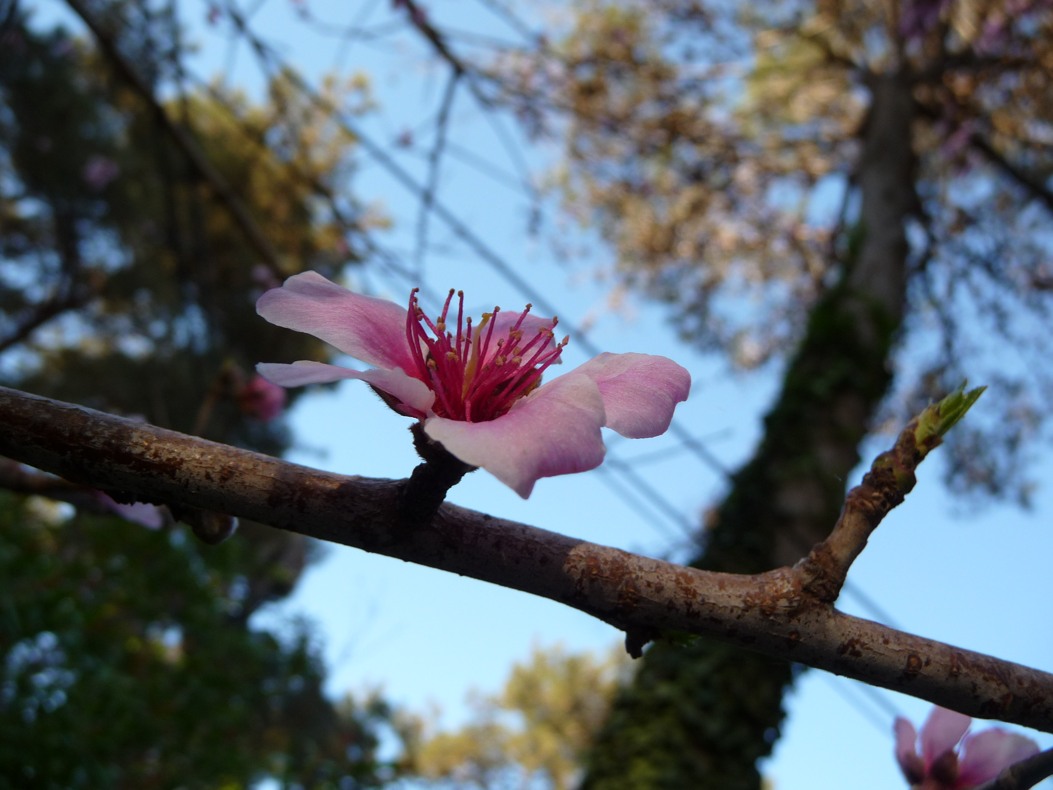 Beit Oren is a kibbutz in northern Israel. It falls under the jurisdiction of Hof HaCarmel Regional Council.